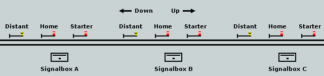 A diagram showing the principles of Absolute Block, with the traditional example signalboxes, A, B and C. A Up train travelling from A to C will see the signals in the order shown - signals in the Down direction are not shown.